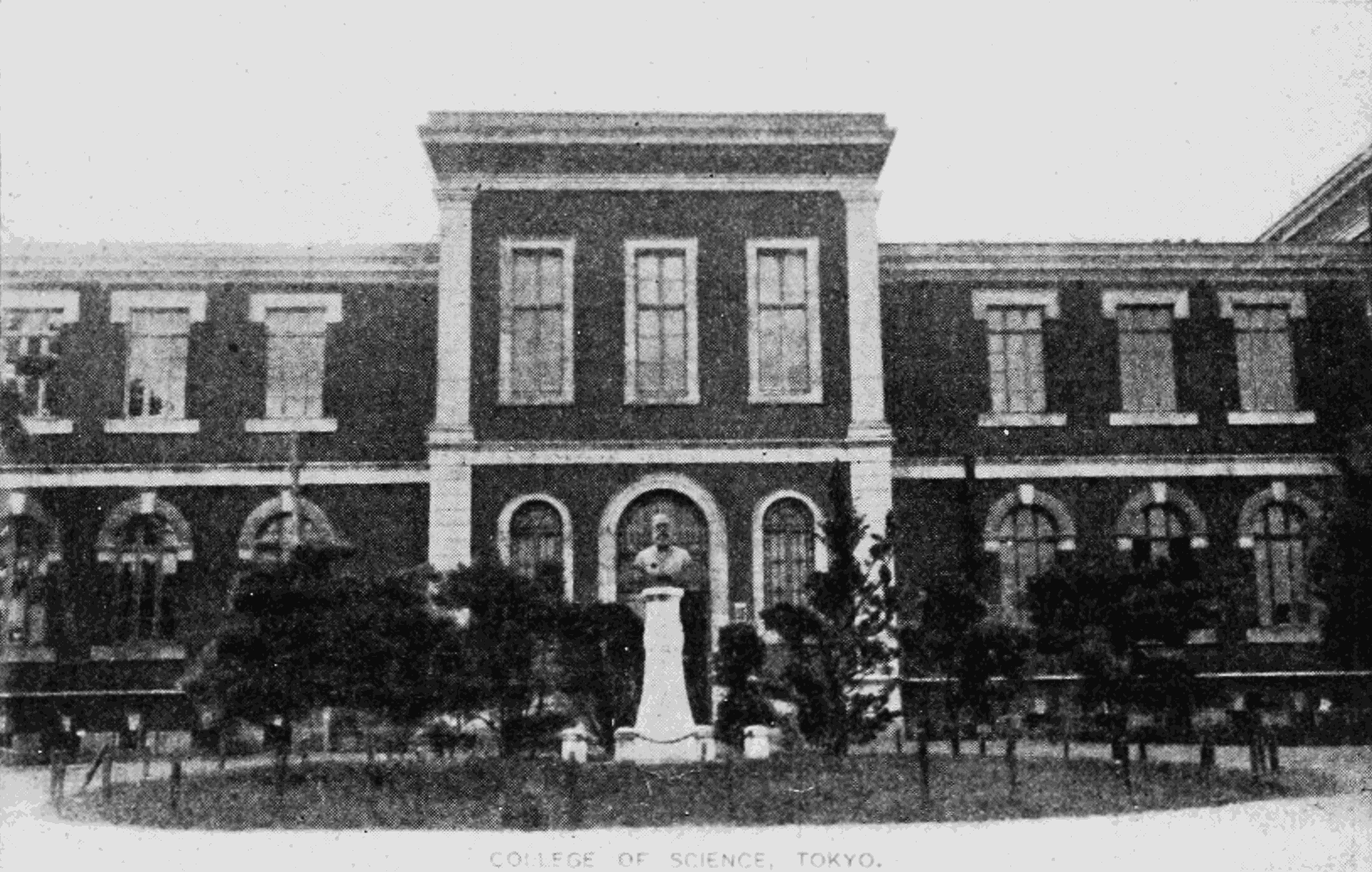 Institutes of Physics and Chemistry at Tokyo